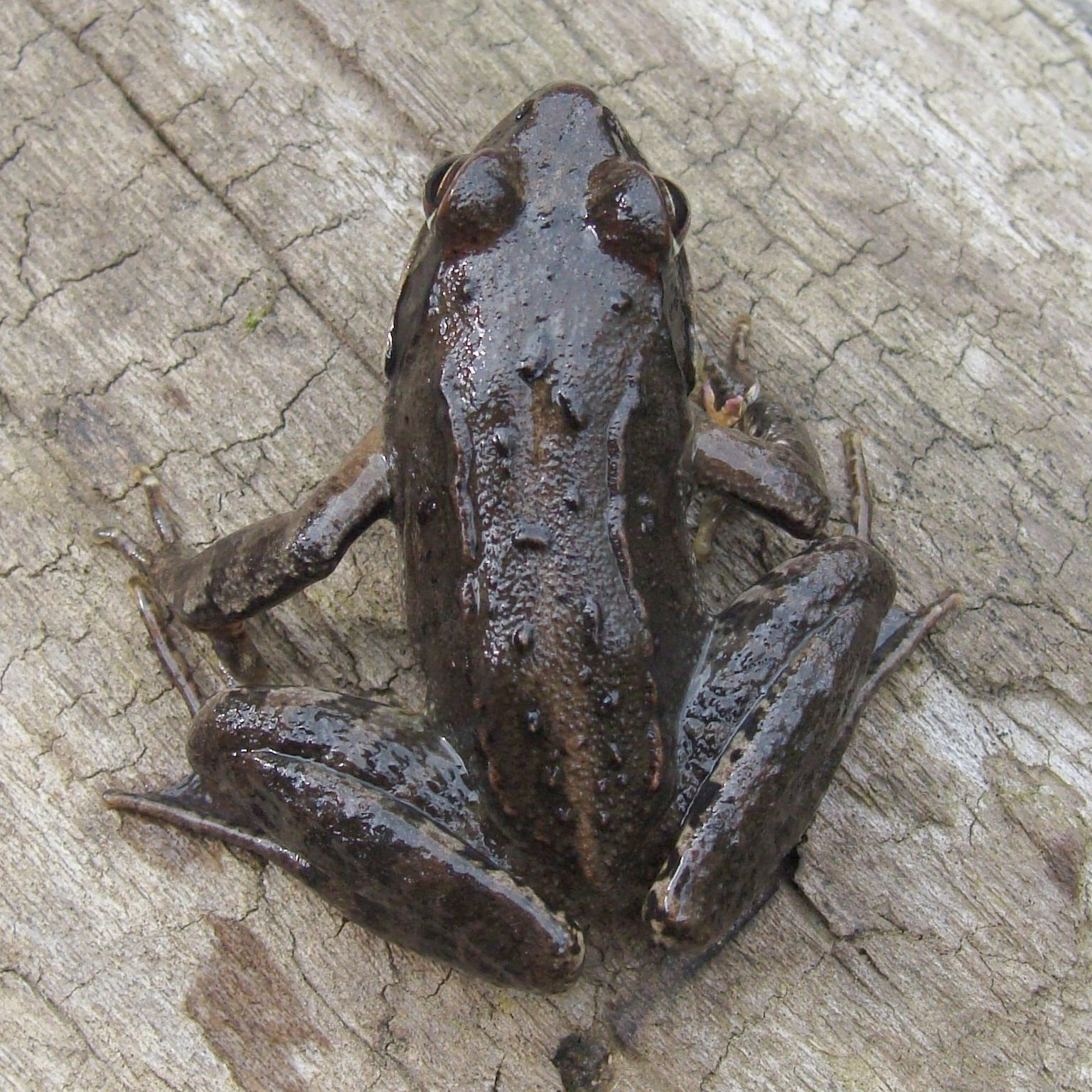 Raninae_Rana_R_ornativentris_Montane_brown_frog（Hakkouda.Aomori.Japan）